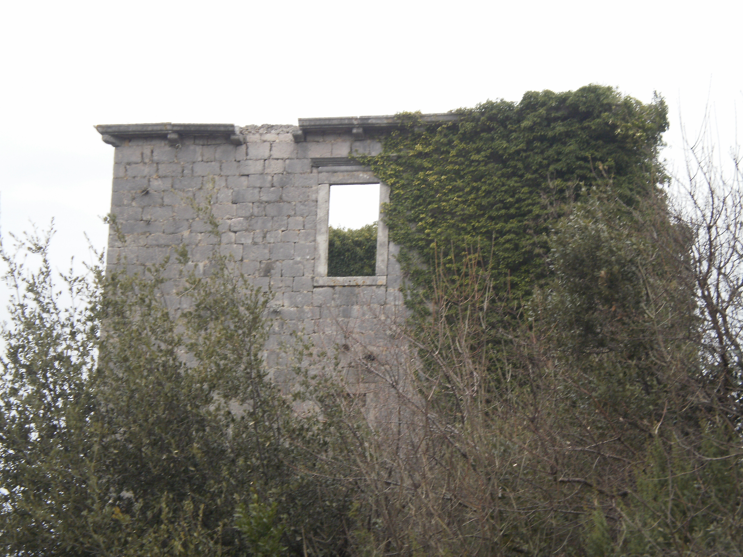 Zlatarić tower in Pijavičino OLYMPUS DIGITAL CAMERA